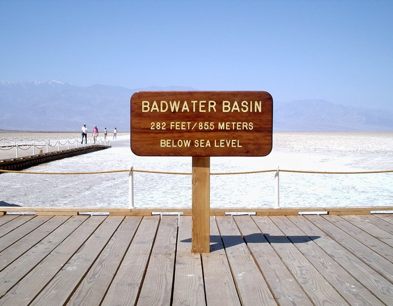 Badwater Basin elevation sign: Badwater Basin 282 feet / 85.5 meters below sea level